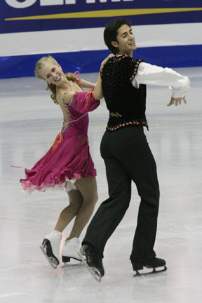 2008 Four Continents Figure Skating Championships - Kaitlyn Weaver and Andrew Poje